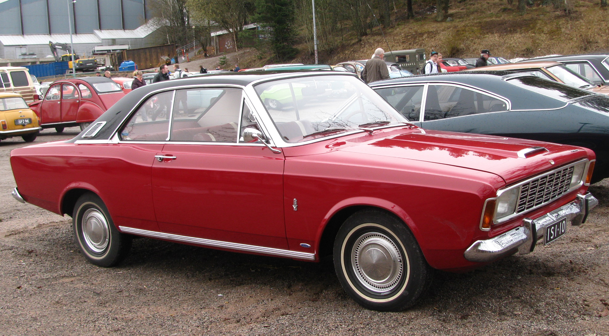 Ford Taunus 20M, Classic Motor Show parking lot in Lahti, Finland.